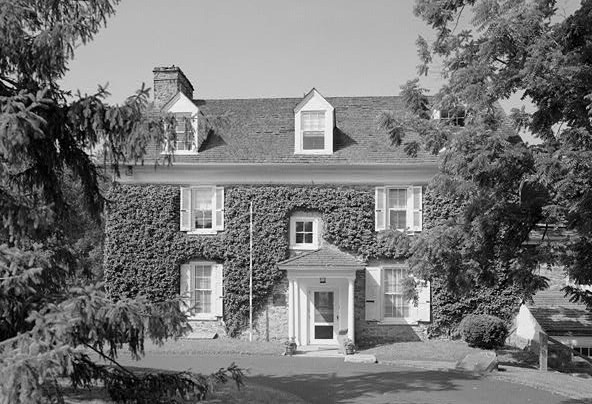 Mill Grove, House, Pawling Road, Audubon (Montgomery County, Pennsylvania) (cropped)